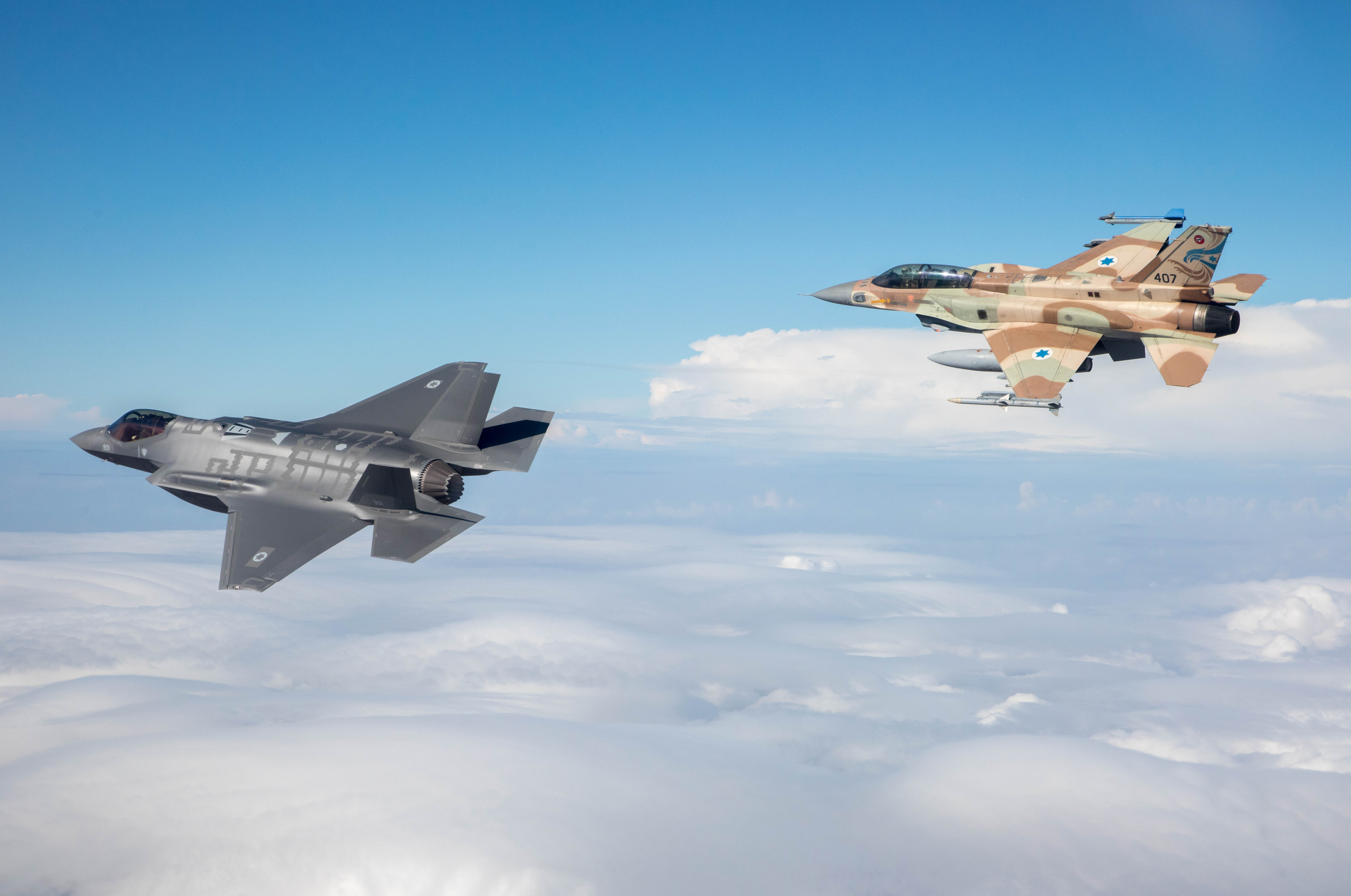 The "Adir" jets first flight in Israel. Pictured: "Adir" jet and F-16I "Sufa". Photo by: Maj. Ofer